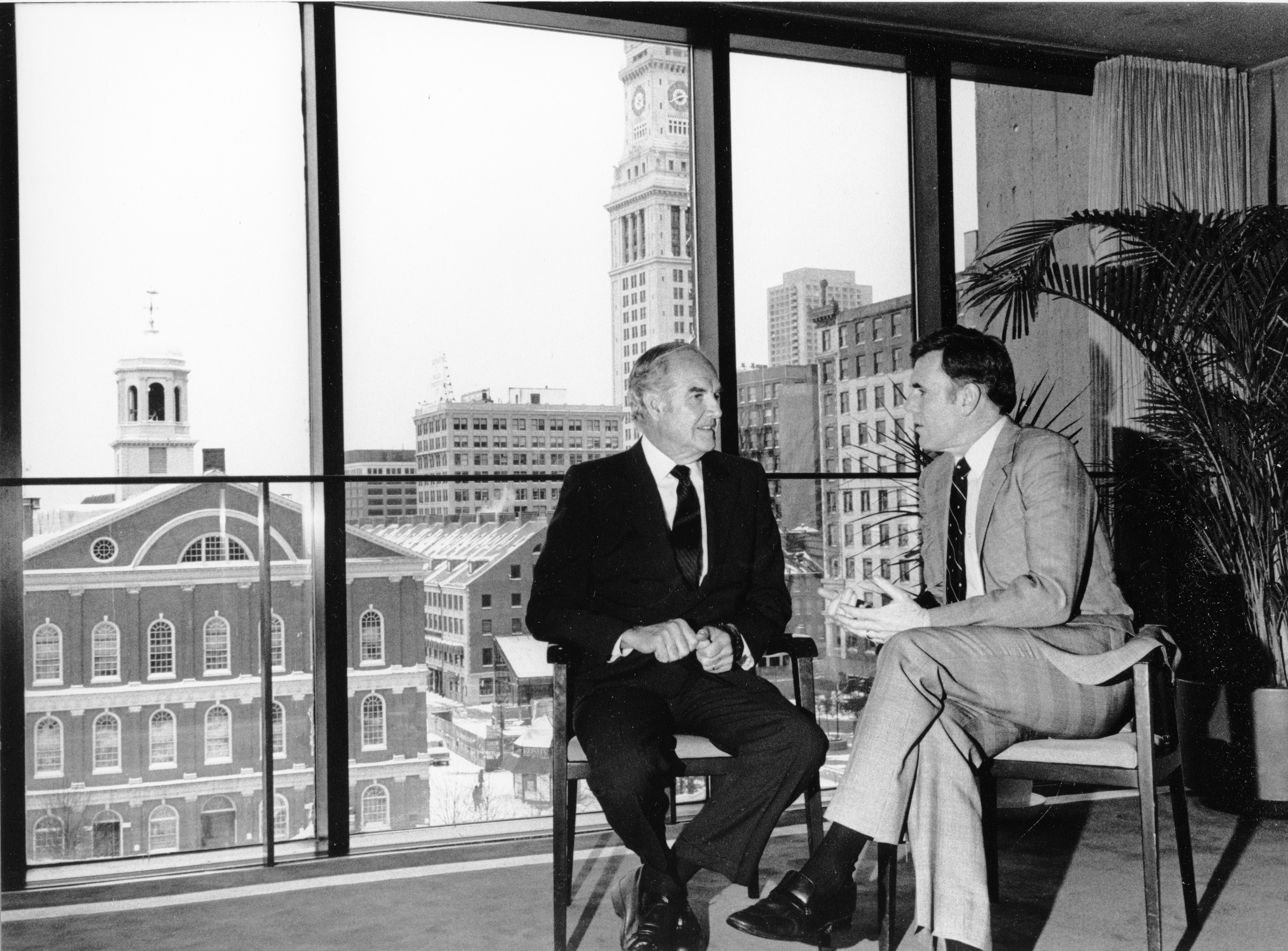 Title: George McGovern and Mayor Raymond L. Flynn Creator: Mayor's Office - City Photographer Date: circa 1984-1987 Source: Mayor Raymond L. Flynn records, Collection #0246.001 File name: RF_0555 Rights: Copyright City of Boston Citation: Mayor Raymond L. Flynn records, Collection #0246.001, City of Boston Archives, Boston